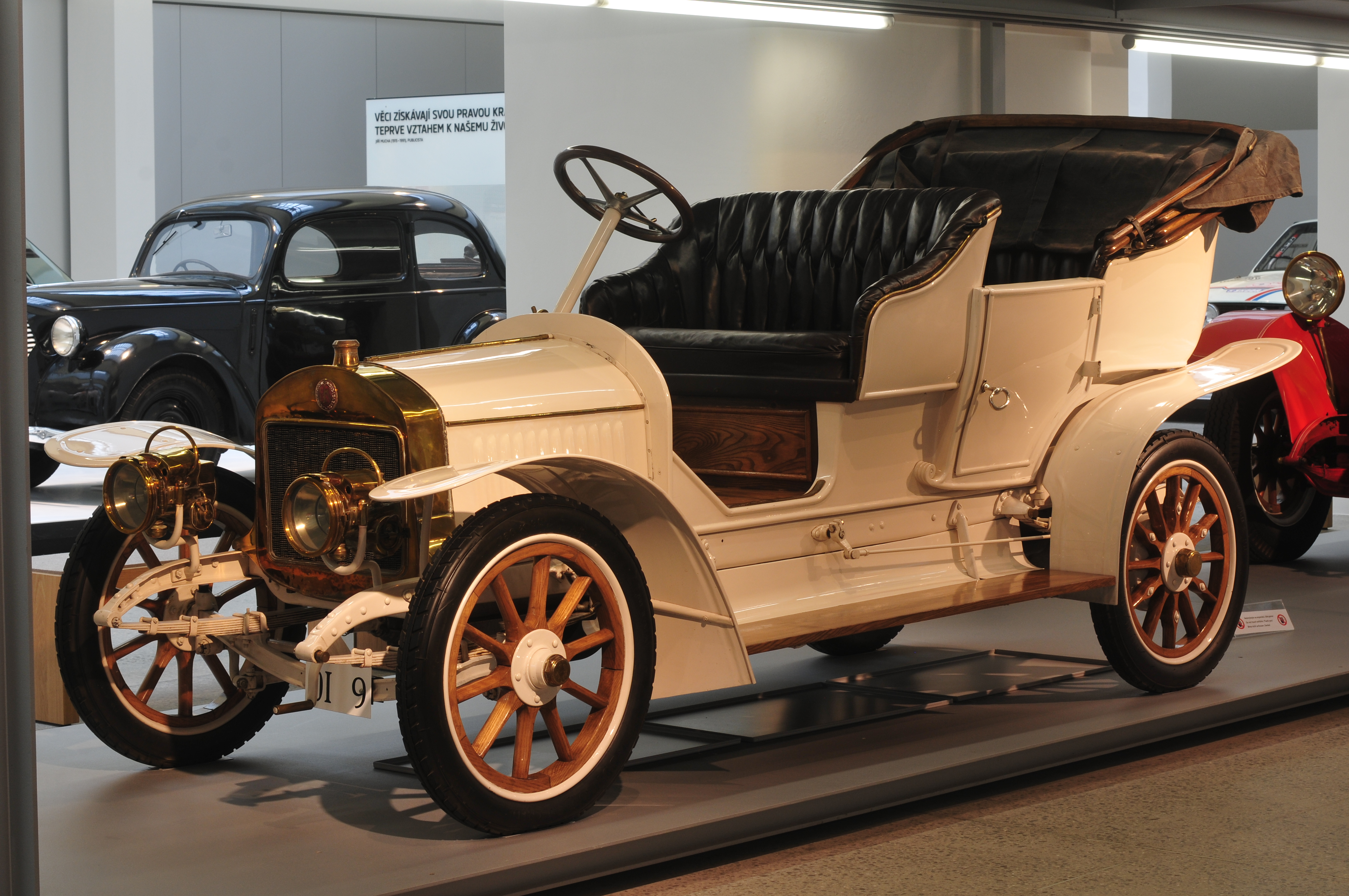 Laurin & Klement G